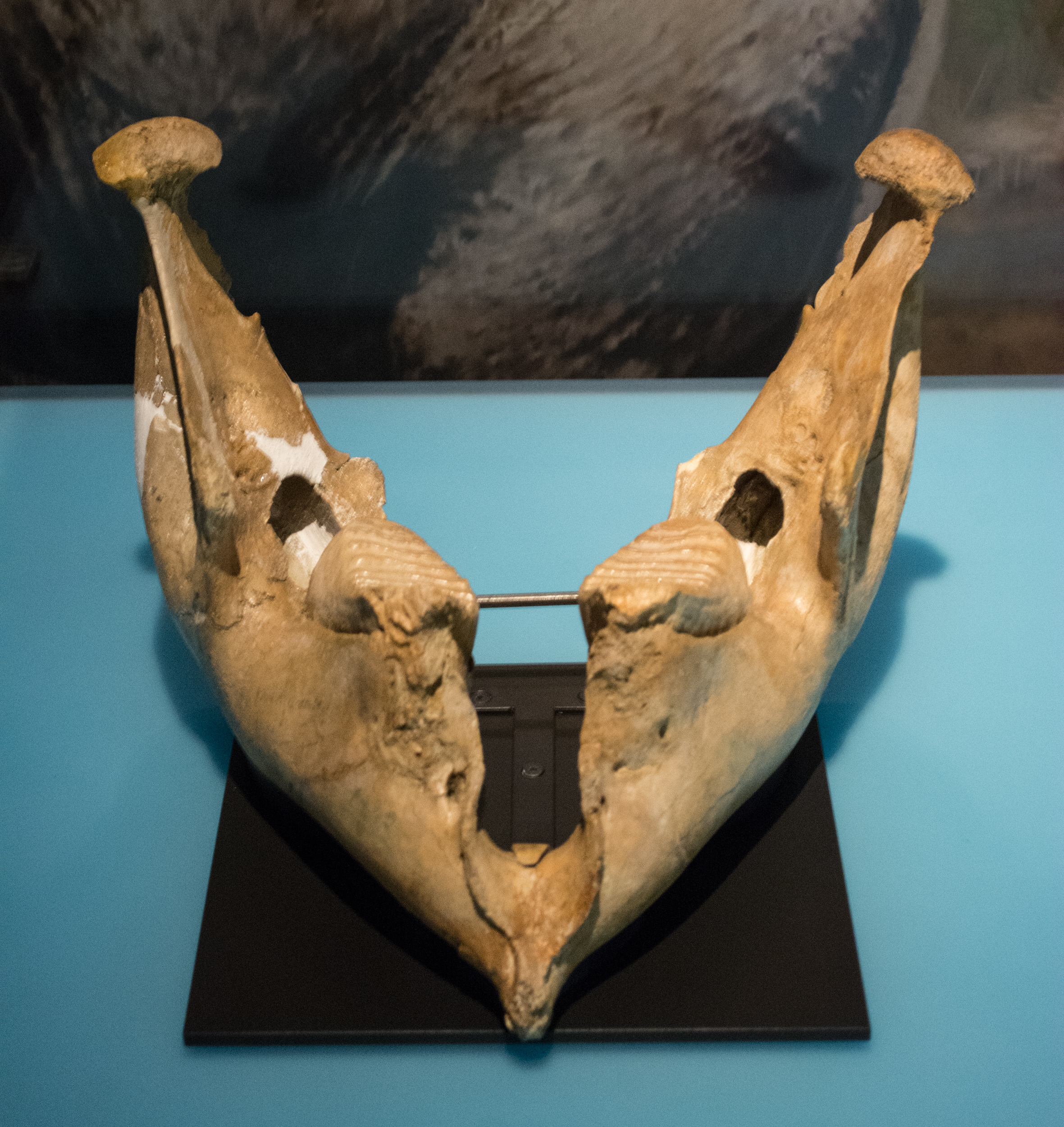 Jaw (mandible) of a Pygmy mammoth (Mammuthus exilis) at the Cleveland Museum of Natural History in Cleveland, Ohio.